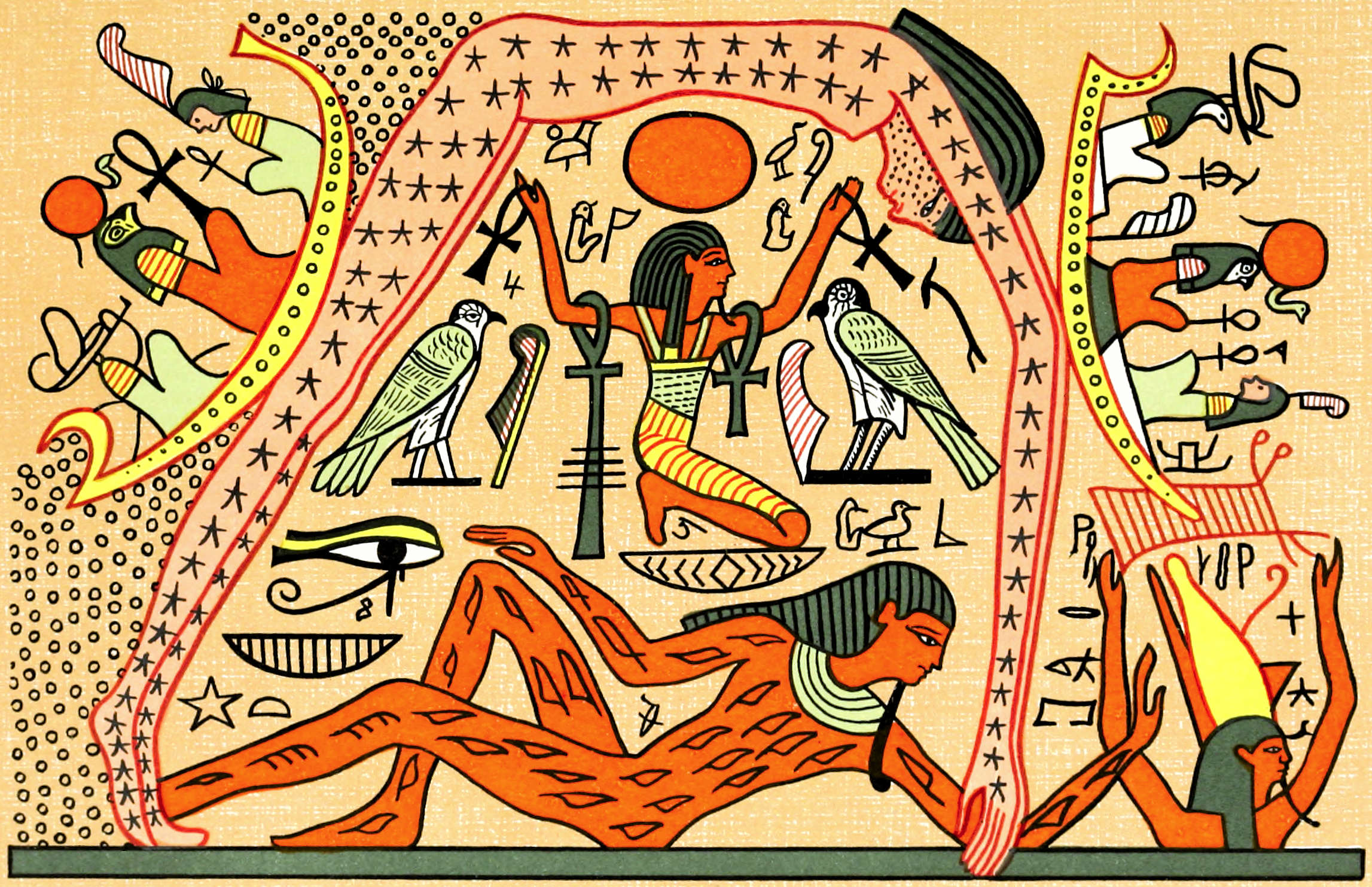 Caption of picture in book reads: "The God Seb supporting Nut on Heaven"